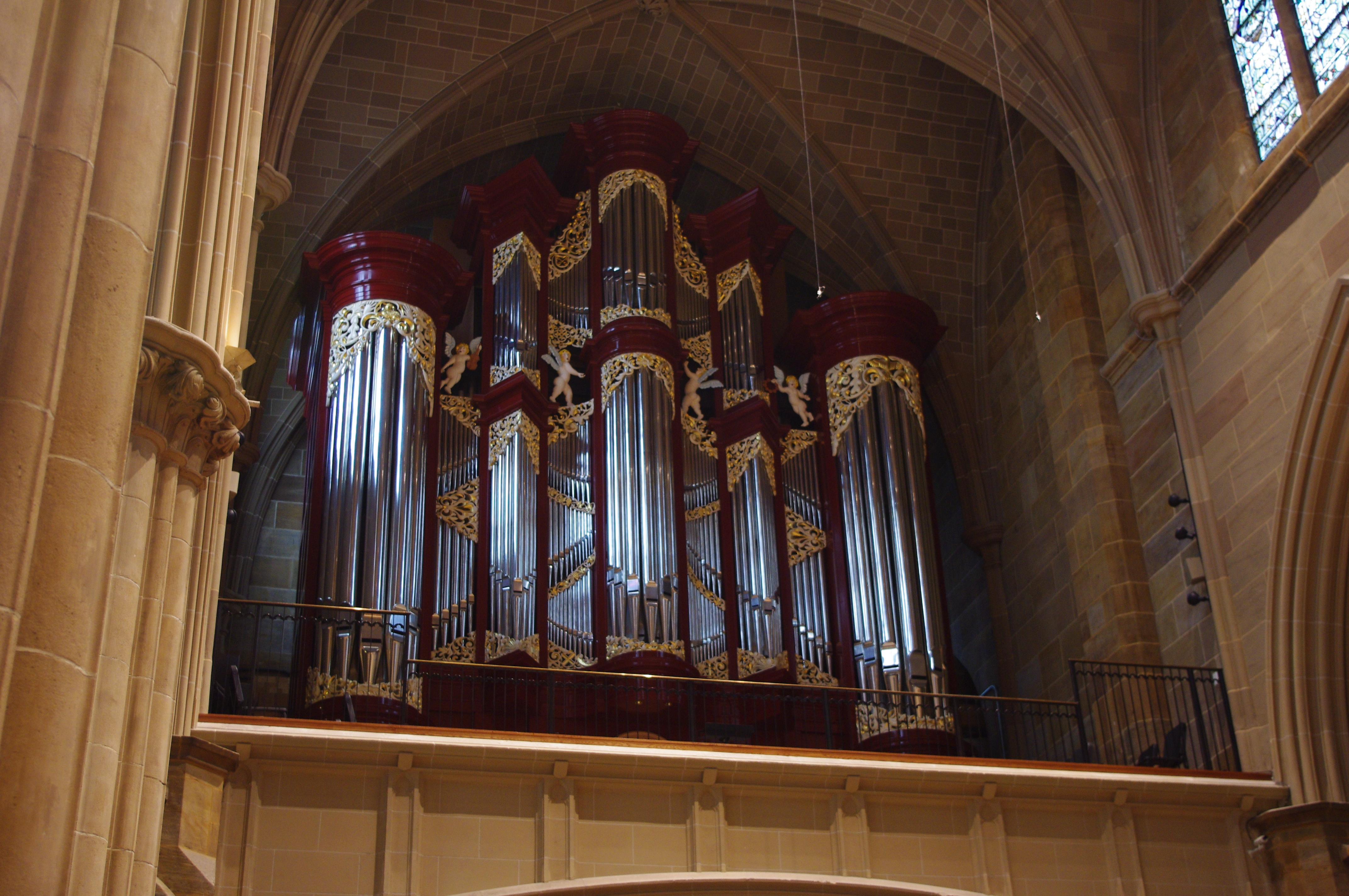 Saint Joseph Cathedral, Columbus, Ohio - organ